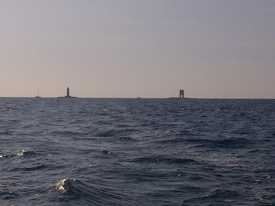 Italy, Livorno, Meloria. The Meloria shoal south end lighthouse and the Meloria Tower.